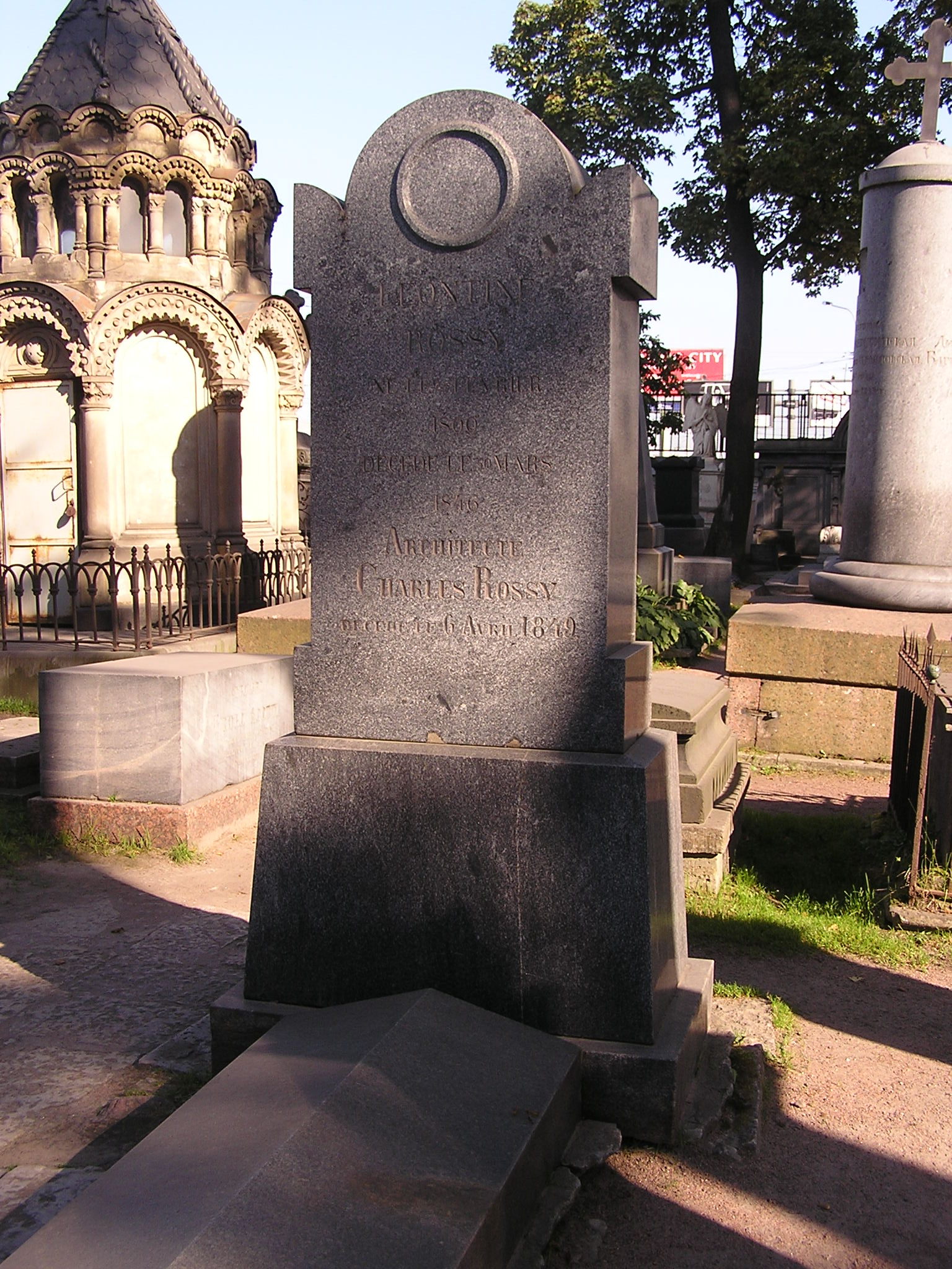 Lazarev Cemetery